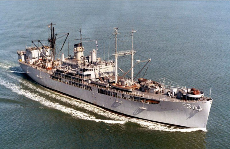 The U.S. Navy destroyer tender USS Tidewater (AD-31) underway in Hampton Roads, Virginia (USA), on 16 March 1965.